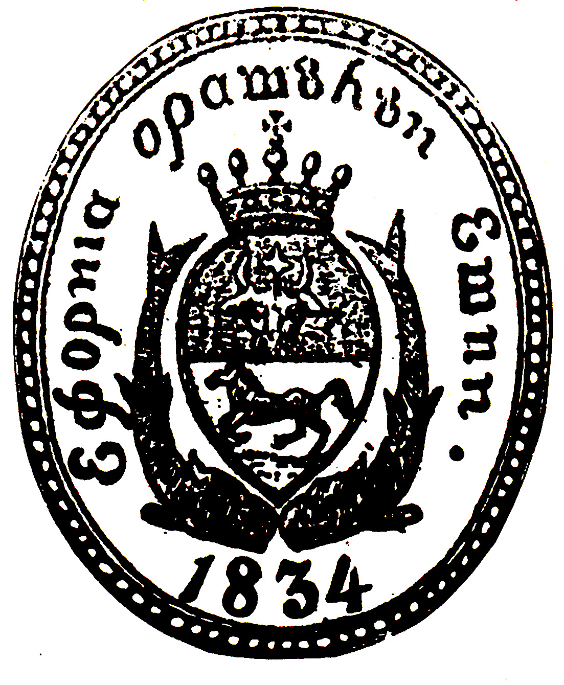 Seal of Iaşi (Eşii), featuring the city emblem topped by the coat of arms of Moldavia and the princely crown. The two dolphin supporters are borrowed from the larger arms of Moldavia, and represent the Black Sea. The Romanian transitional legend reads Єфорηιа орашȣʎȣη Єшηη, in a form of transitional Cyrillic-to-Latin that includes Greek and Glagolytic typeface. The modern Romanian version would be Eforia oraşului Eşii ("The Ephoroi of Iaşi City").